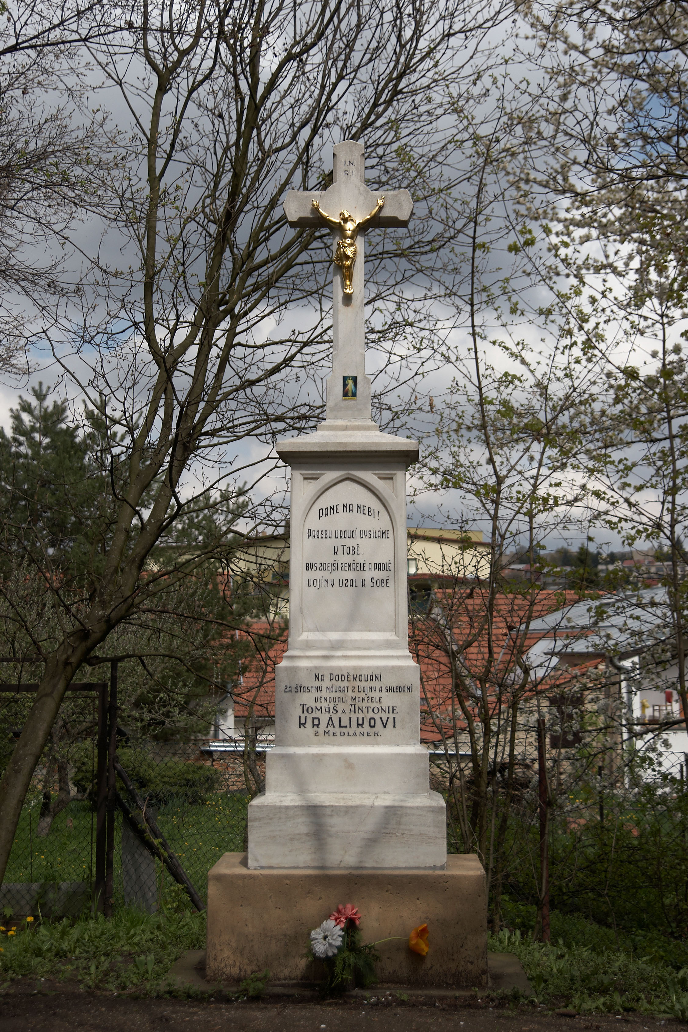 Cross in the chateau park, Brno – Medlanky